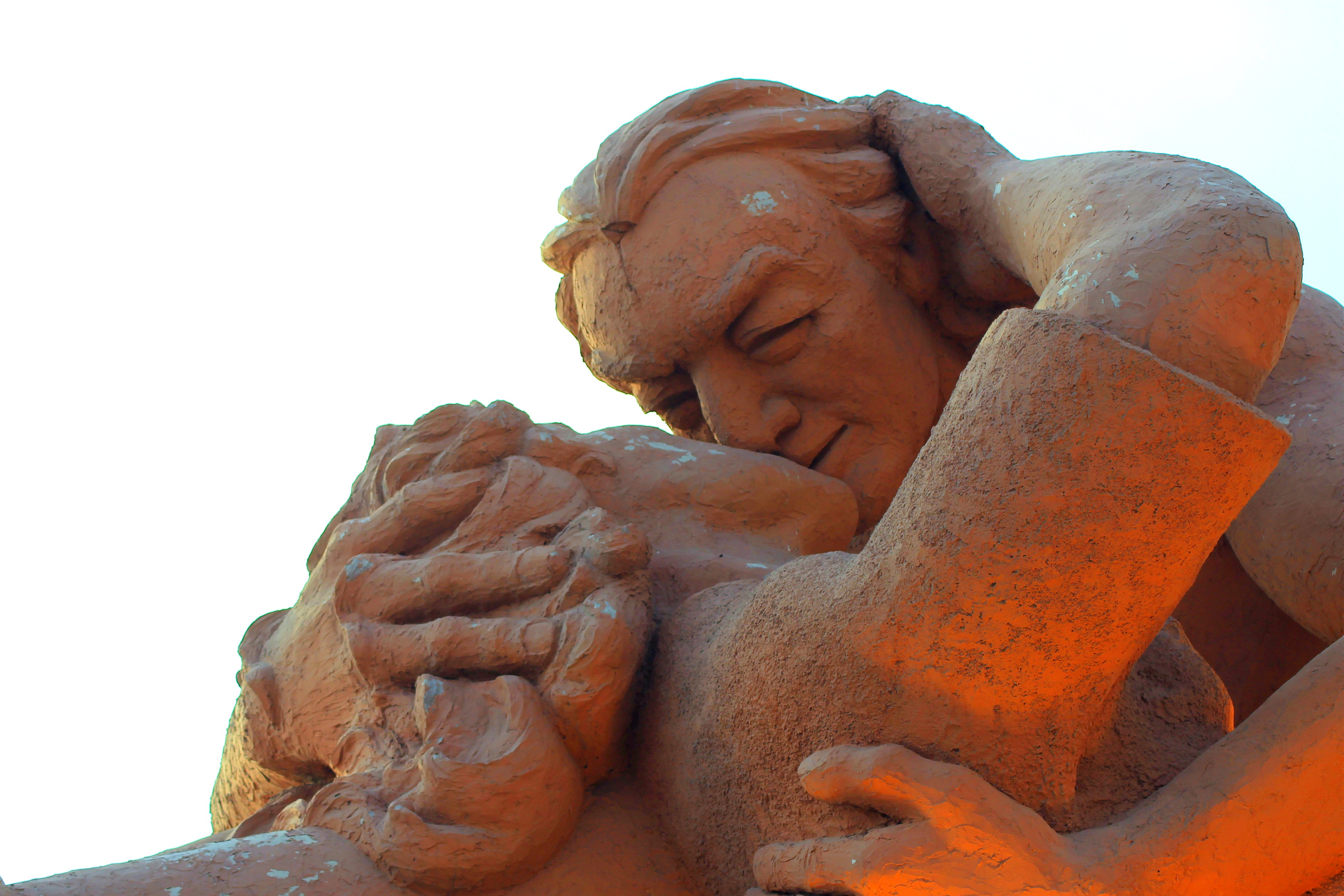 The sculpture of the artist, Victor Delfín, and his wife kissing called El Beso (The Kiss). It stands in the Parque del Amour (Love Park) in the Miraflores district of Lima, Peru. It is inspired by the Antoni Gaudi's Parc Guell in Barcelona.